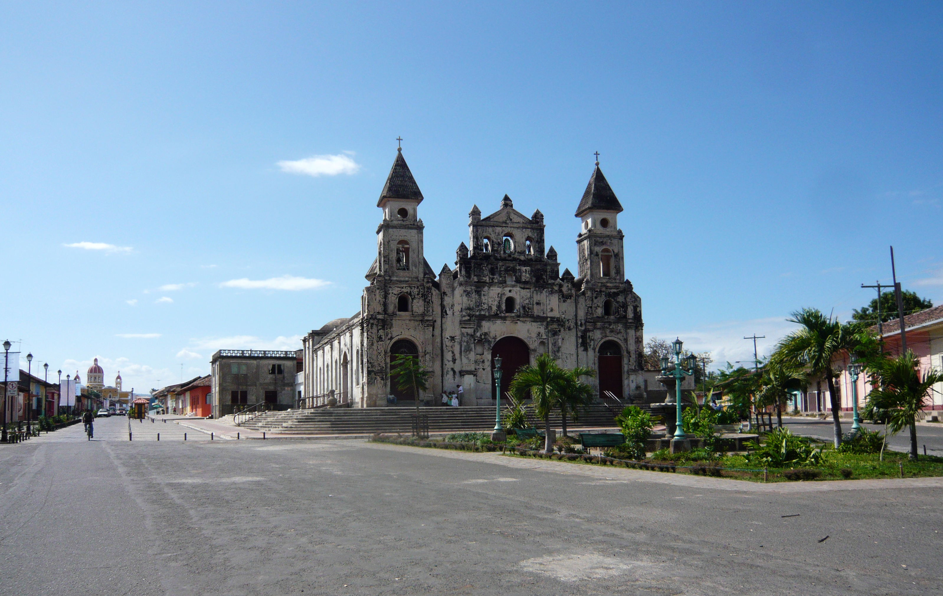 Iglesia de Guadalupe, Granada, Nicaragua